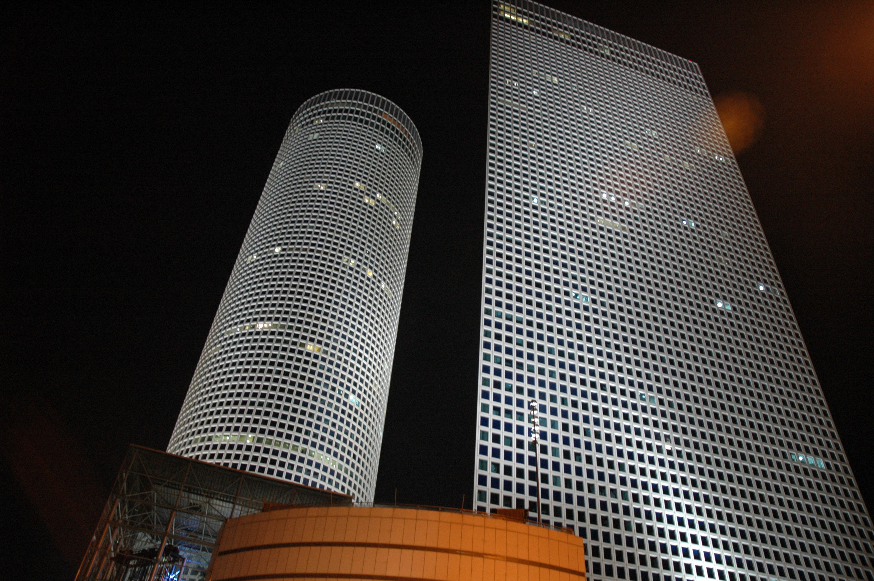 Azrieli Towers in Tel Aviv.